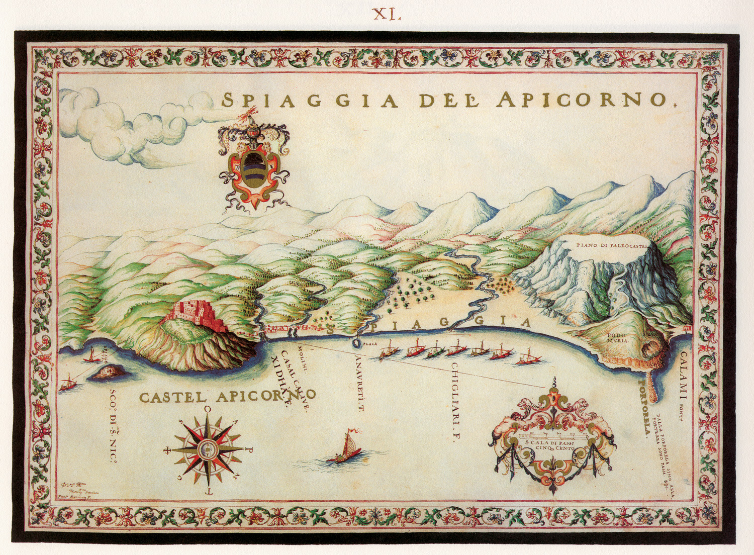 Spiaggia dell'Apicorno - Francesco Basilicata - 1618